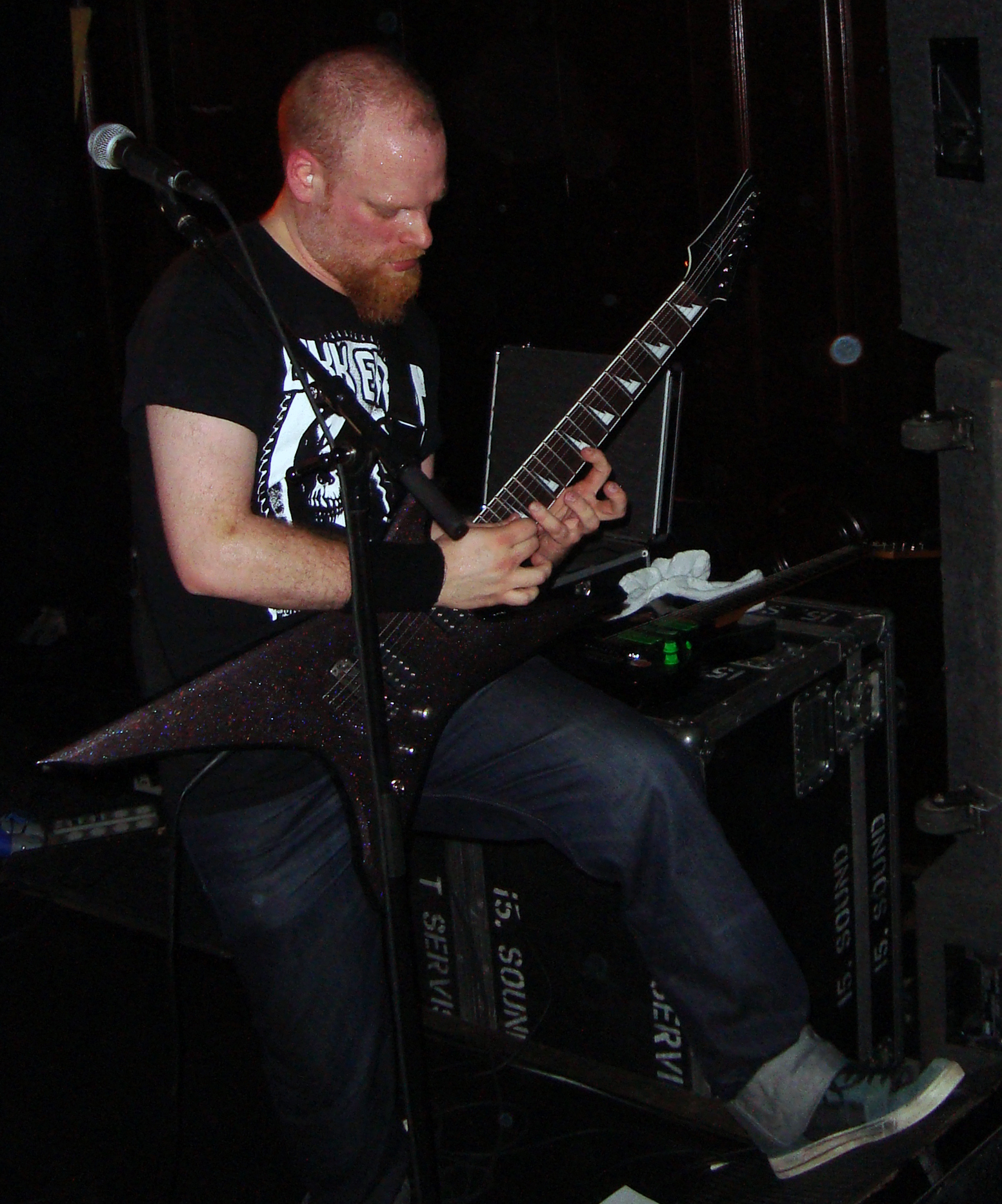 Guitarrist Per Nilsson in Scar Symmetry